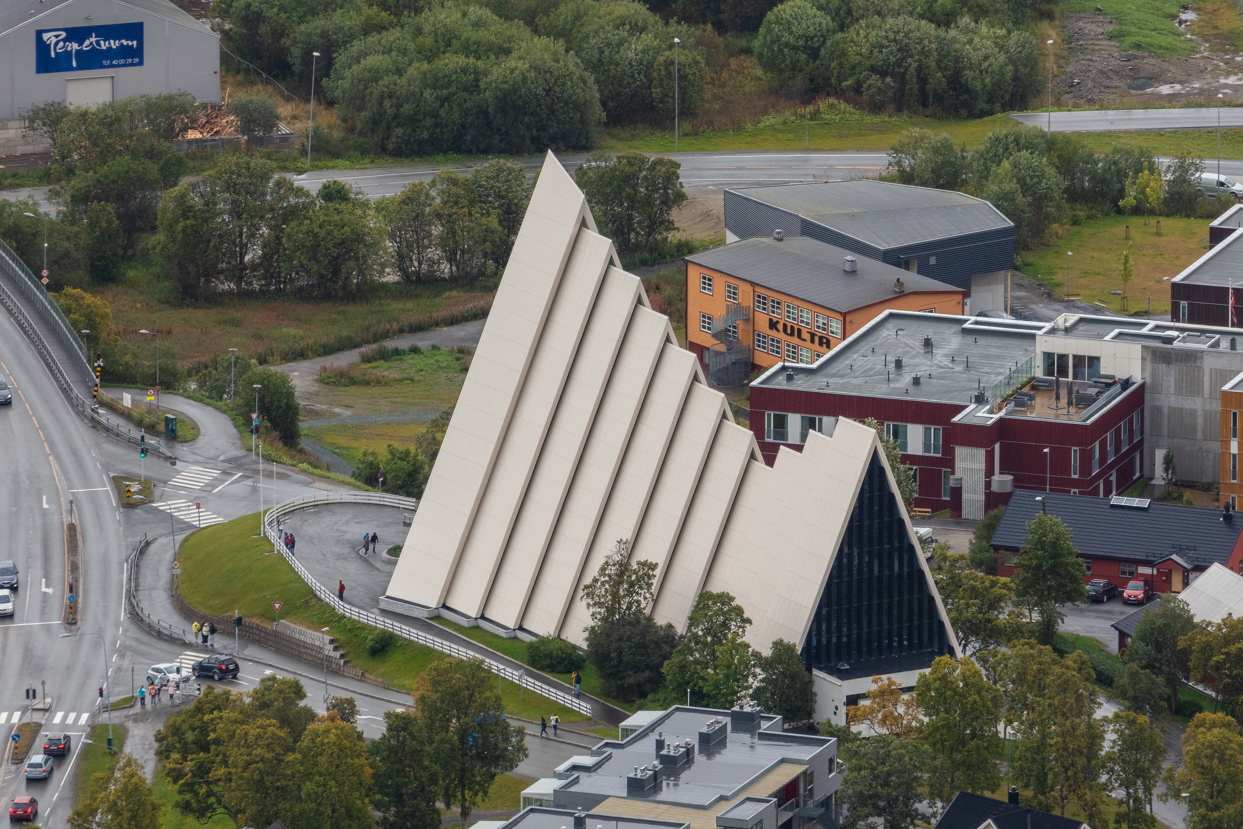 Arctic Cathedral, Tromsø, Norway